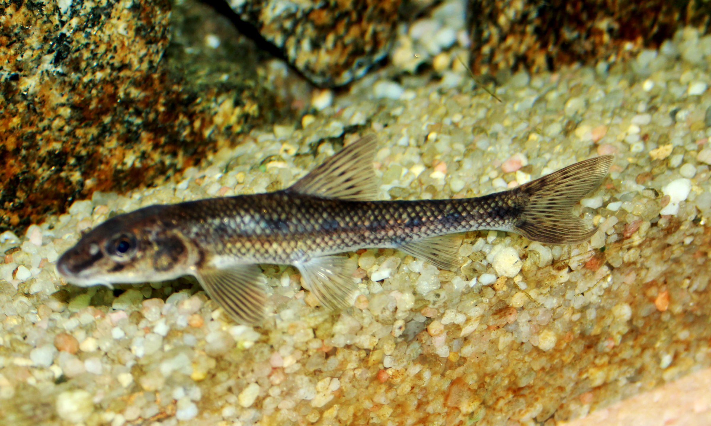 Gudgeon on exhibition Subaqueous Vltava, Prague 2011, Czech Republic